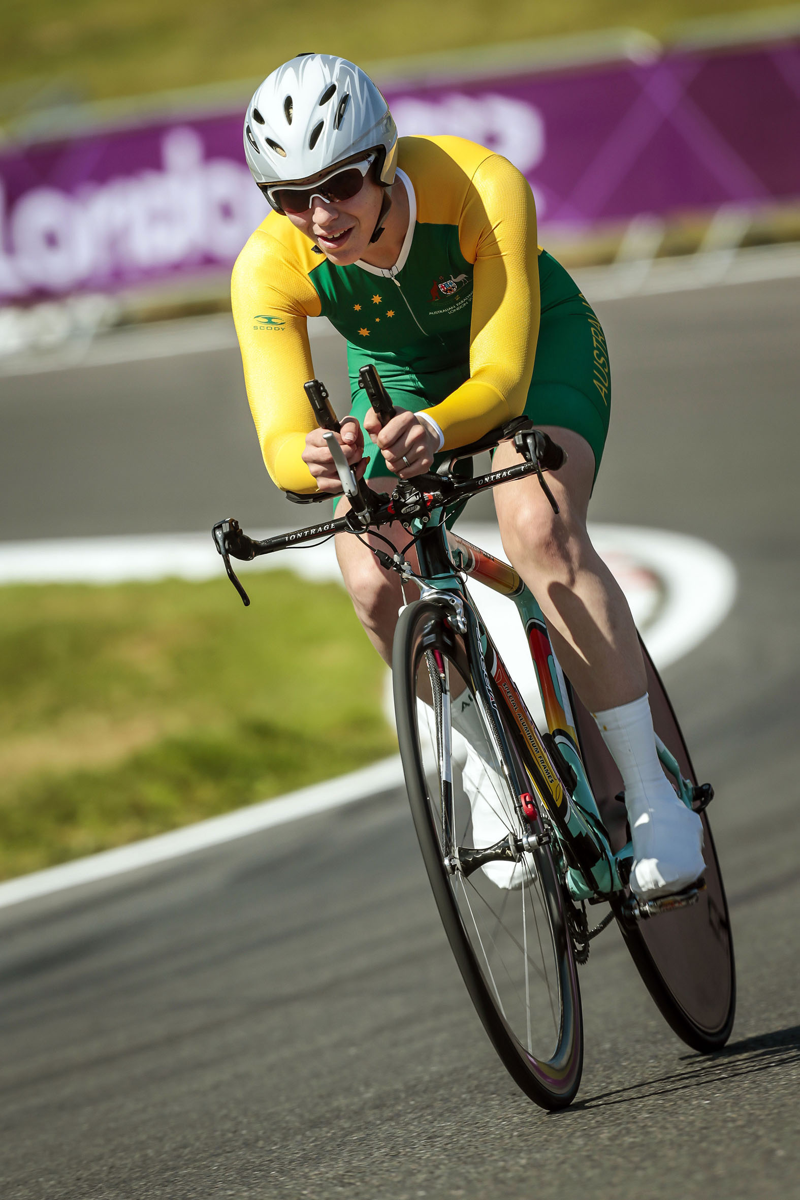 Photograph of Australian Paralympic team member Jayme Paris at the 2012 Summer Paralympic Games in London